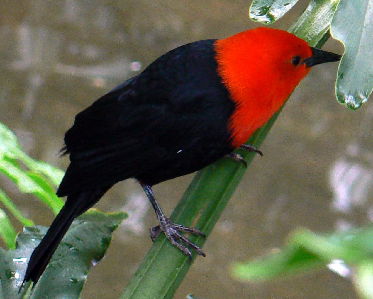 Scarlet-headed blackbird